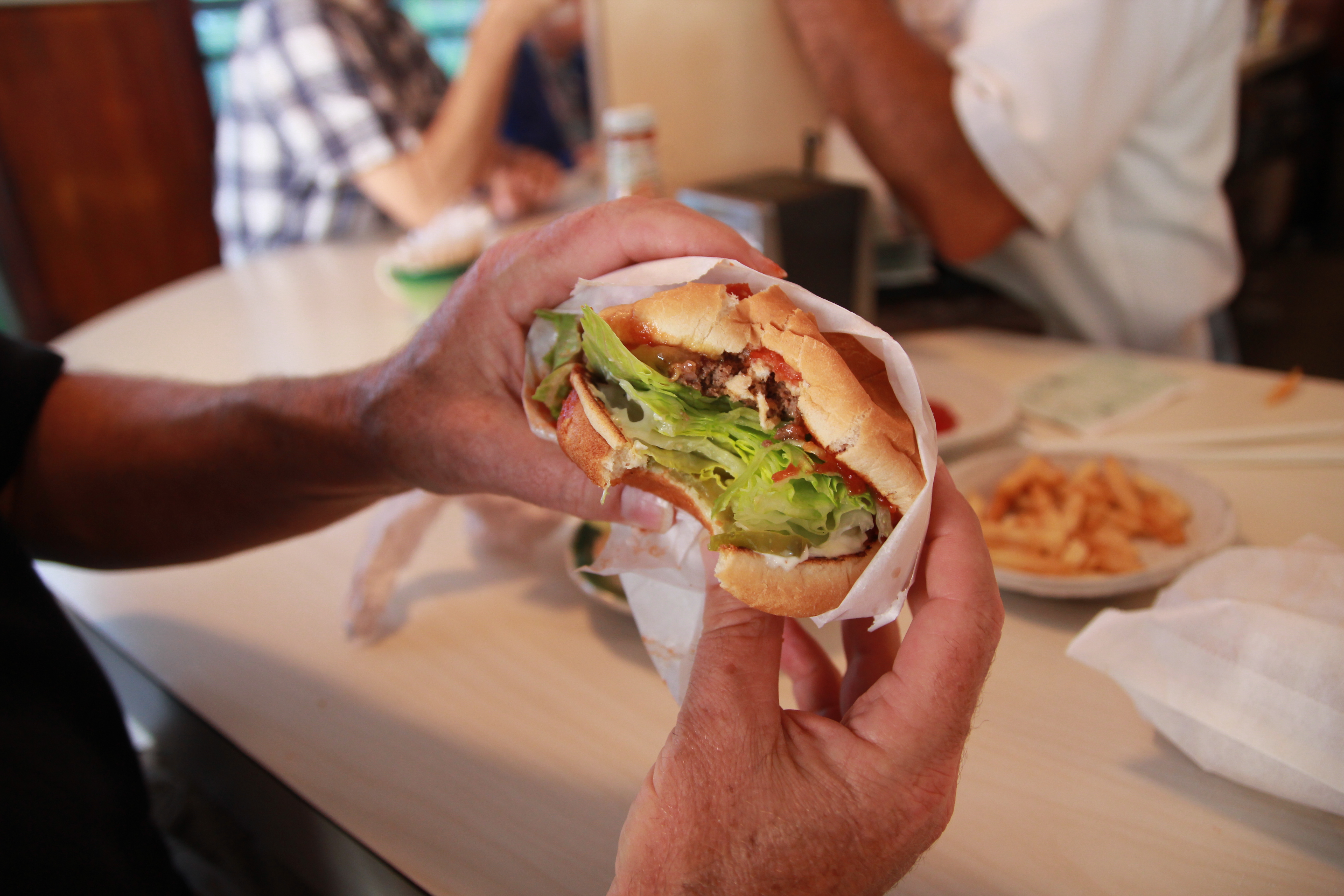 Hickory Burger from The Apple Pan